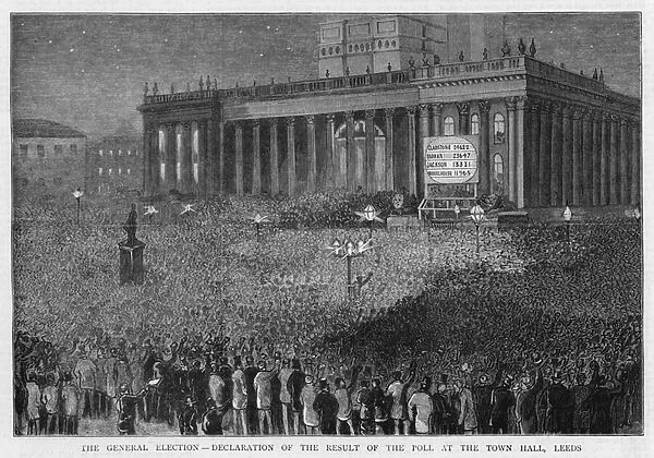 Crowds wait outside Leeds Town Hall, Leeds, West Yorkshire to hear the results of the 1880 general election won by William Gladstone (Liberal Party). The Liberal Party enjoyed much support in Leeds and other industrial cities during this time.